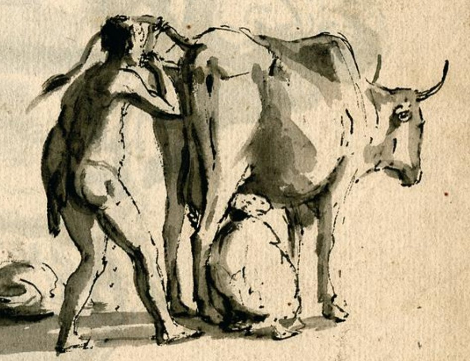 Part of the cattle management to of the tribes of Khoikhoi, to induce production of milk.